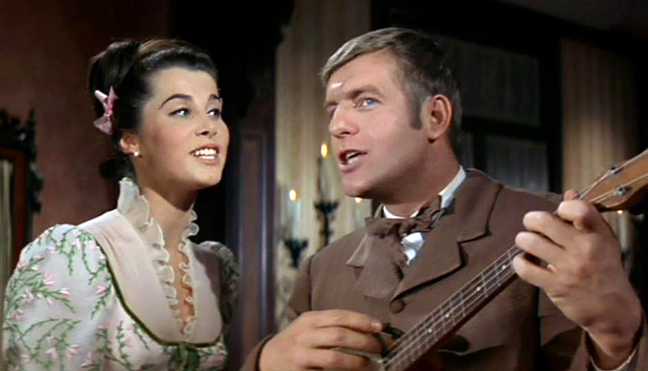 Stefanie Powers & Jerry Van Dyke in McLintock! (cropped screenshot)